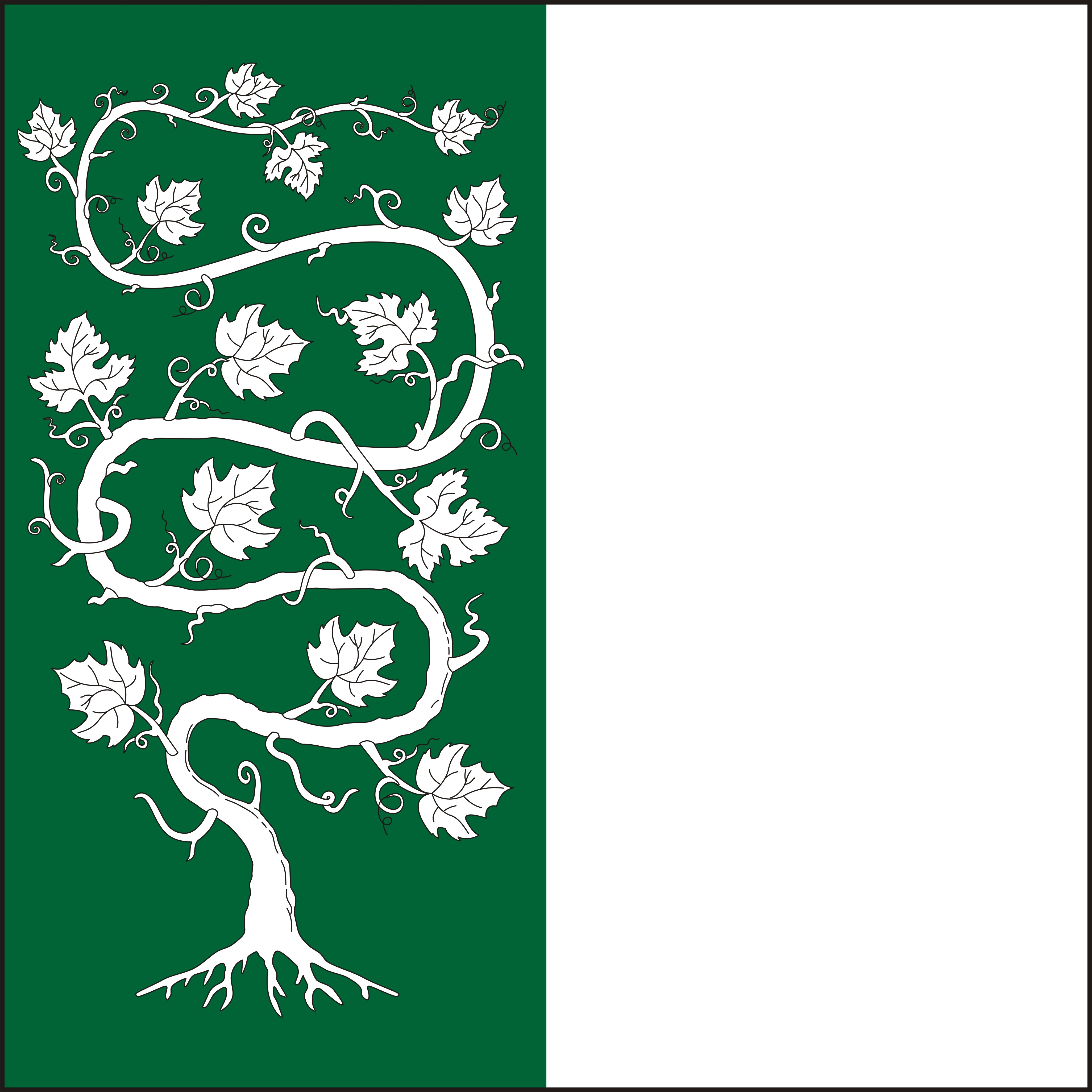 Flag of Lozova, Strășeni